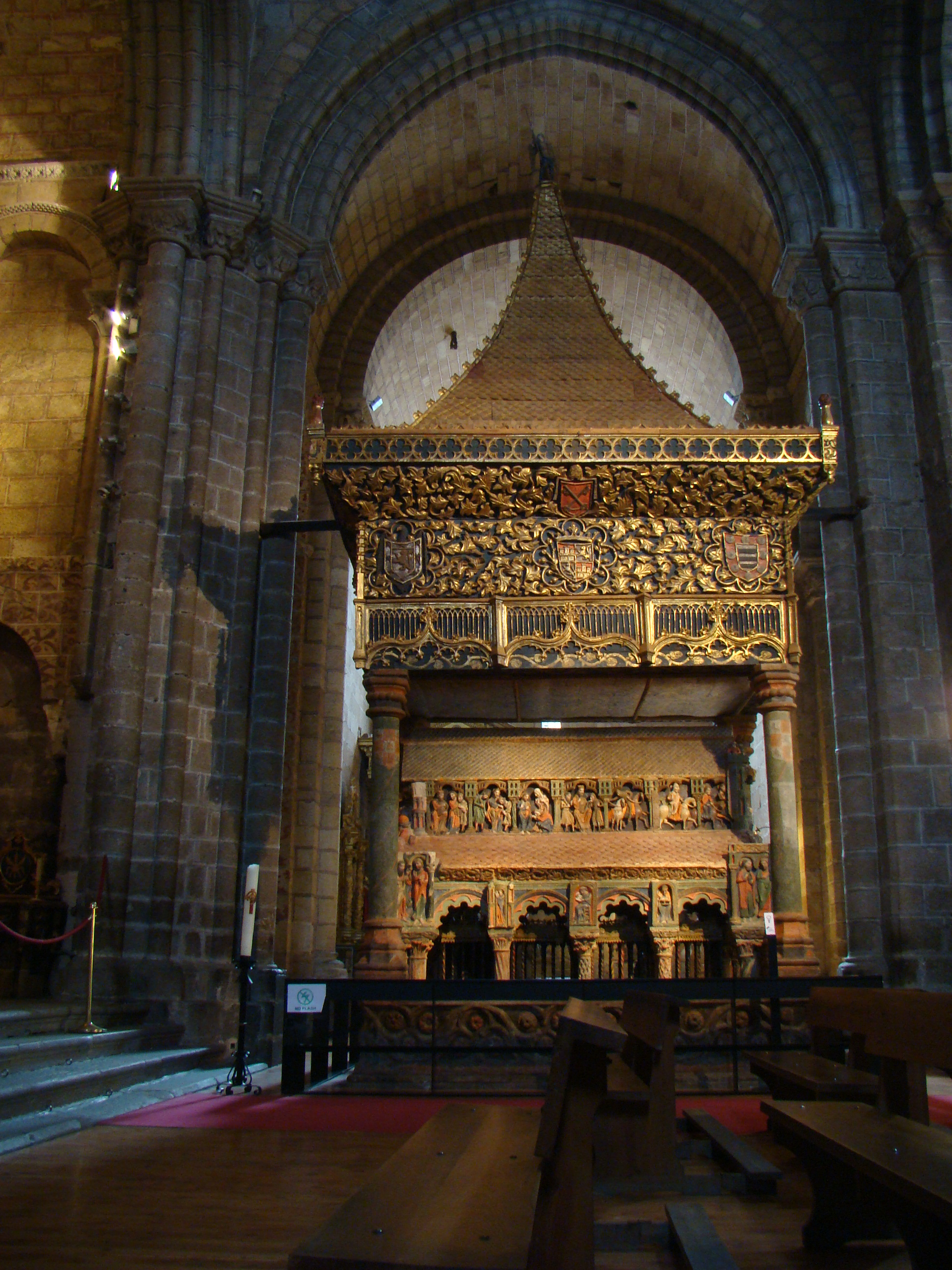 Romanic cenotaph of the martyrs saints Vicente, Sabina and Cristeta in the basilica of San Vicente, Ávila (Spain). It is located under the transversal arch of the epistle. It was built by the master Fruchel (or Eruchel).